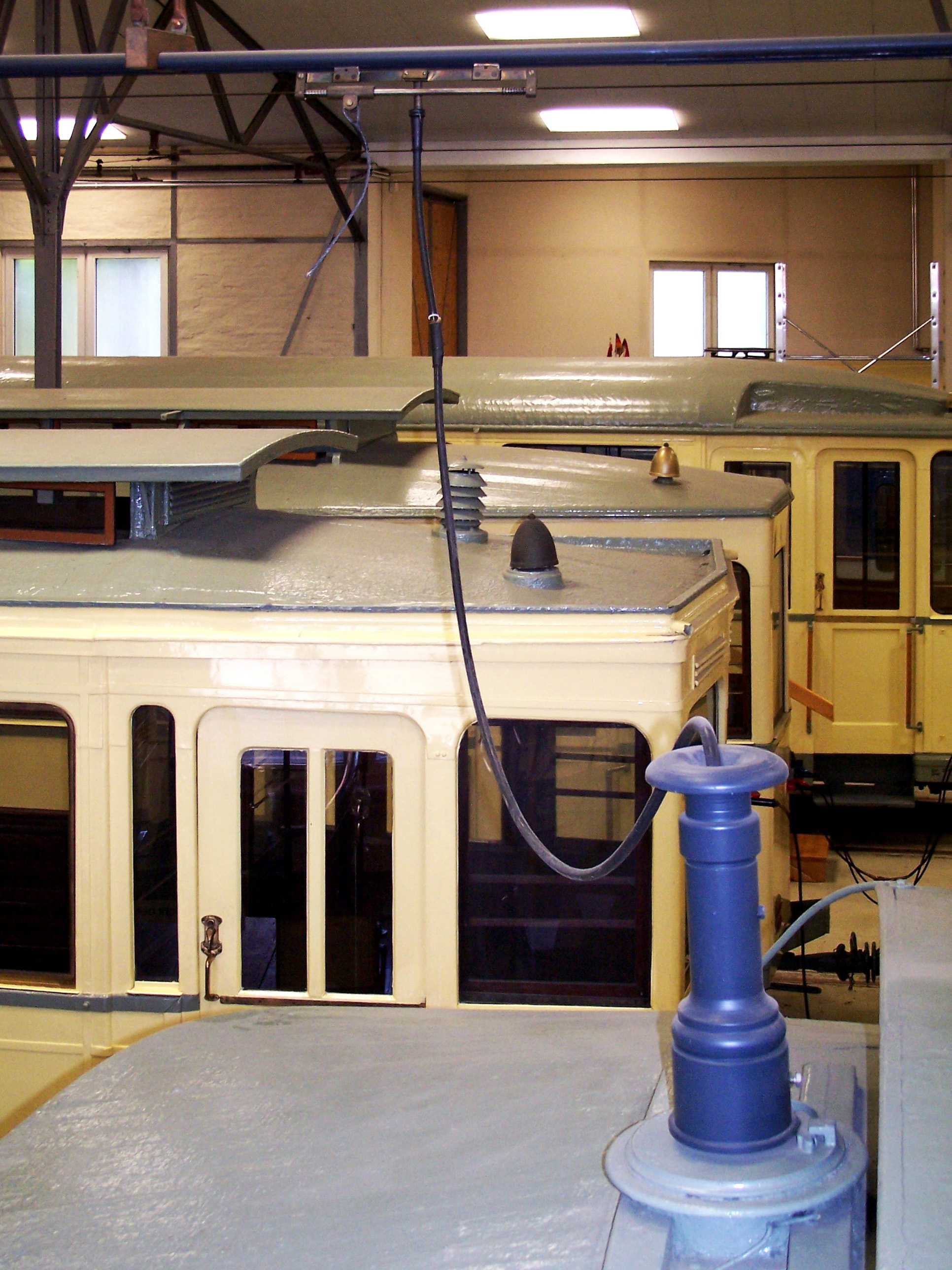 Pantograph at one of both poles of a slitted tube catenary wire of the Frankfurt-Offenbacher Trambahn-Gesellschaft (FOTG) at the Frankfurt on Main Transport Museum in Frankfurt am Main-Schwanheim